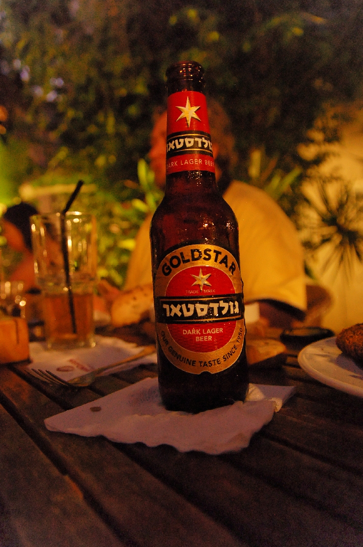 Impressions Wikimania 2011 Haifa